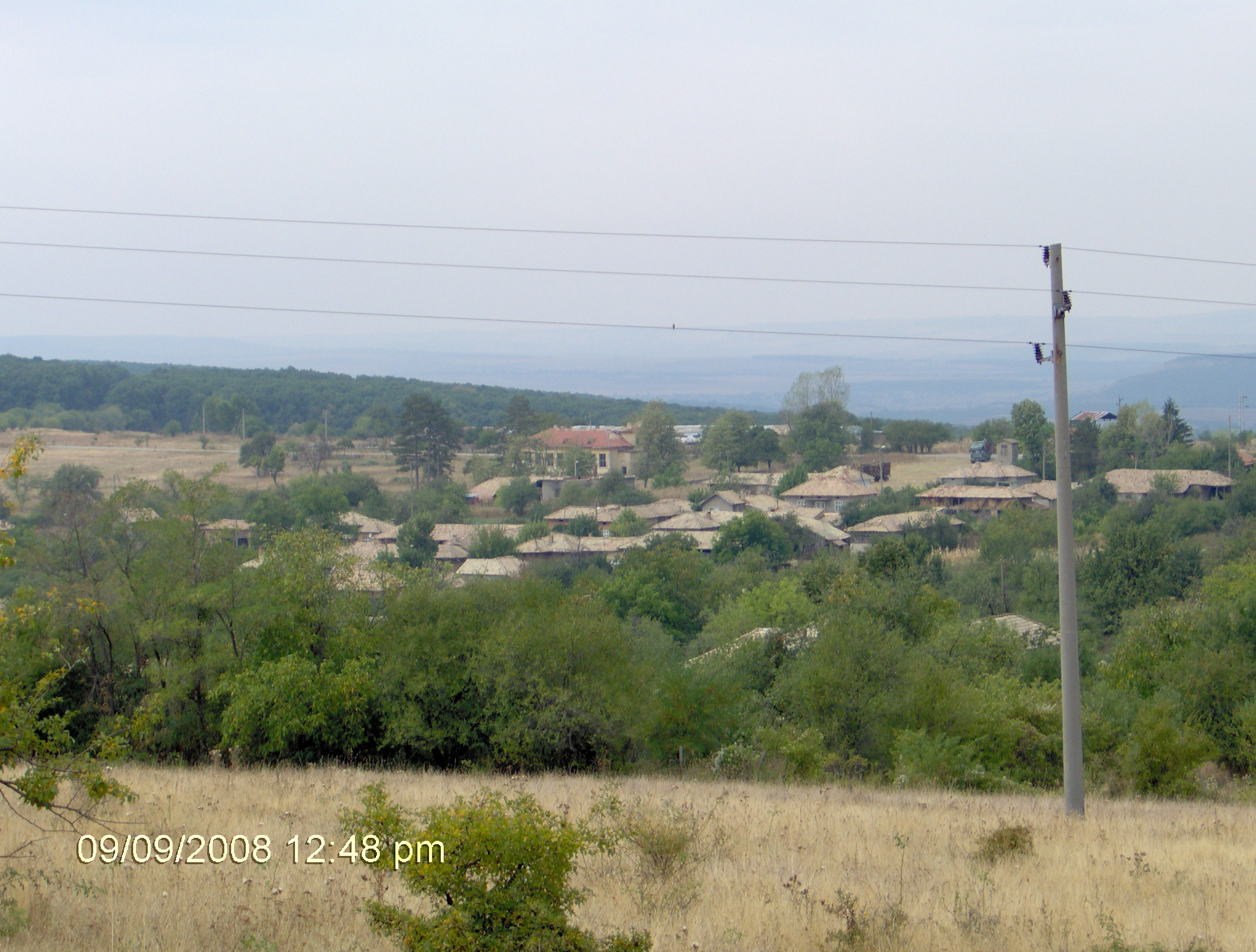 The view of Koshnichari village.